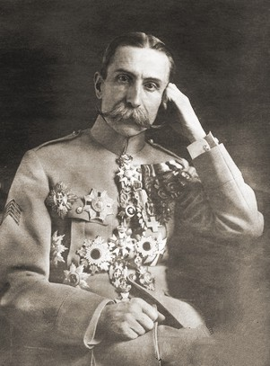 Henri Le Rond (1864-1949) – French General, Chief of Allied Commision for government and plebiscite in Upper Silesia (1920-1922) ( Fr. Commission interalliée de gouvernement et de plébiscite de Haute-Silésie)